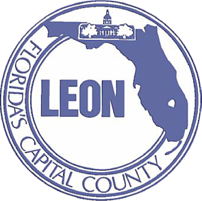 The official seal of Leon County, Florida.